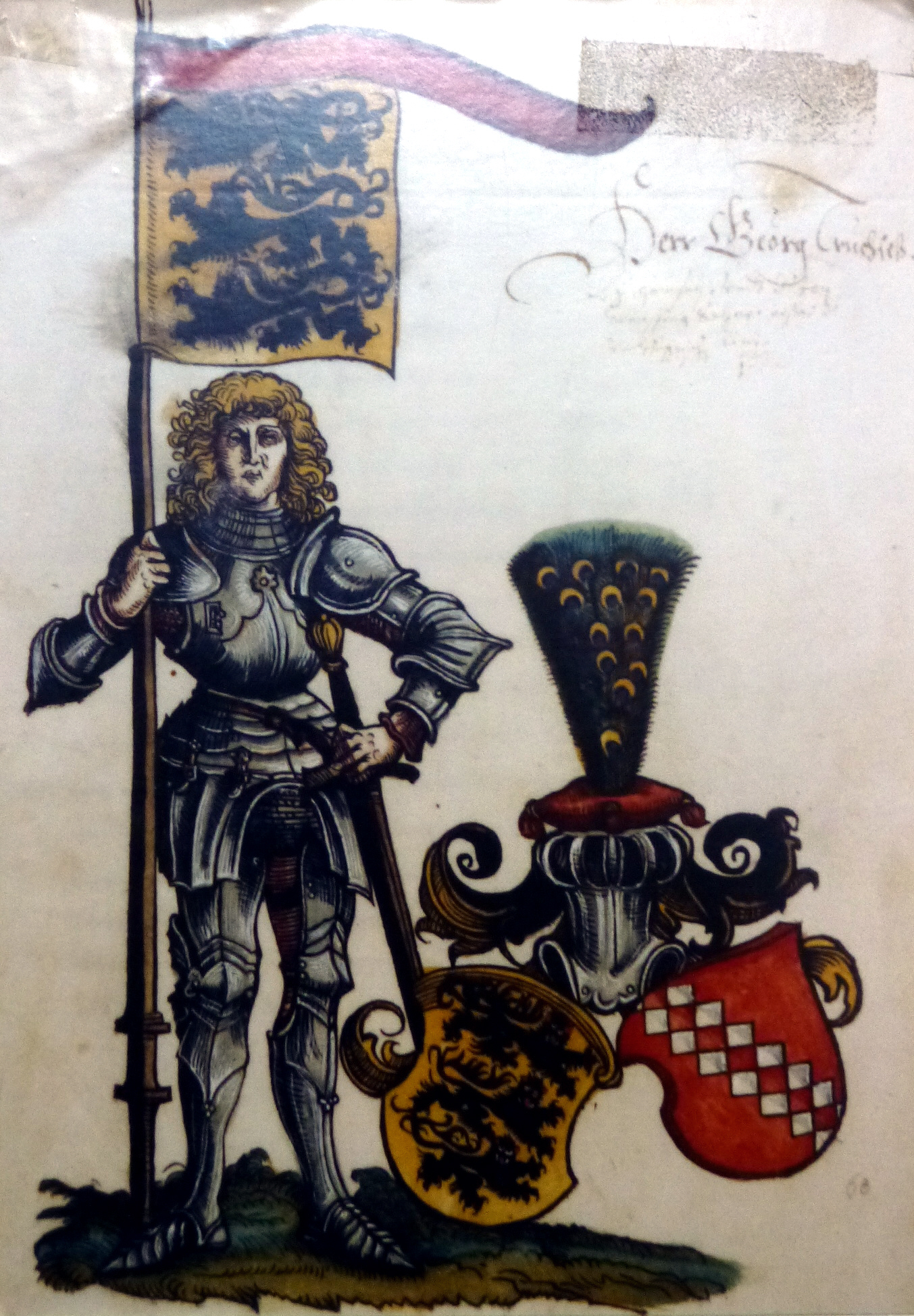 Georg I. von Waldburg-Wolfegg